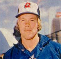 Professional baseball player Dick Ruthven